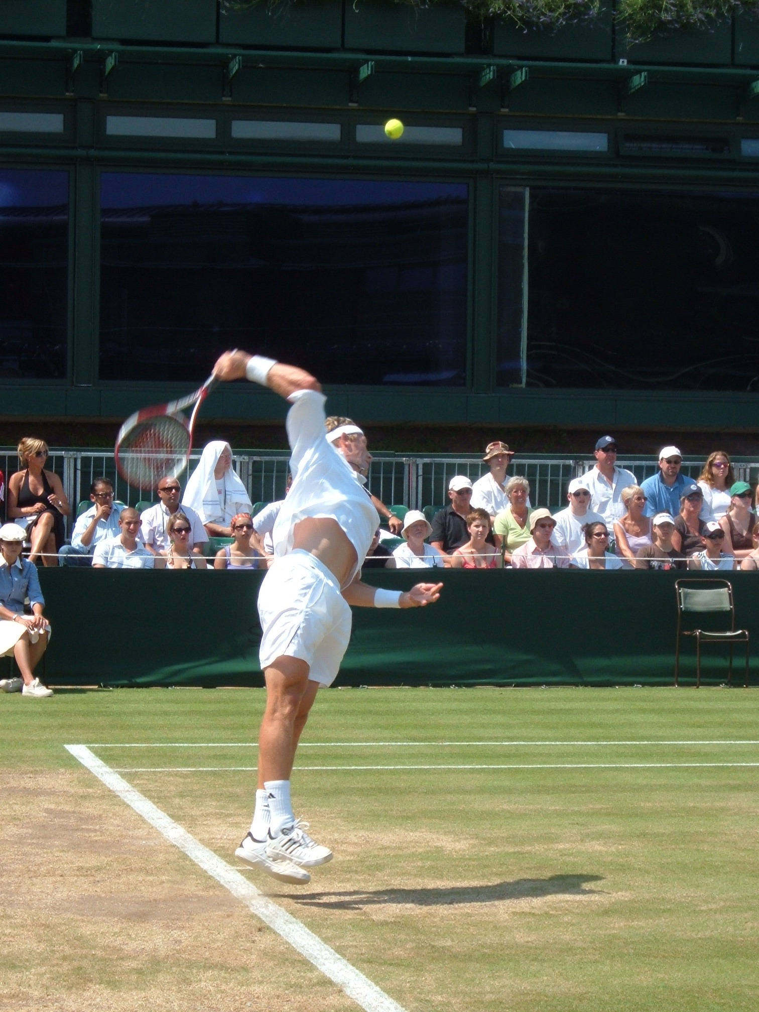 Jonas Bjorkman serves to his doubles partner Max Mirnyi (they were playing singles) on the 1st day of the 2nd week of the Championships, Wimbledon; Court 18.